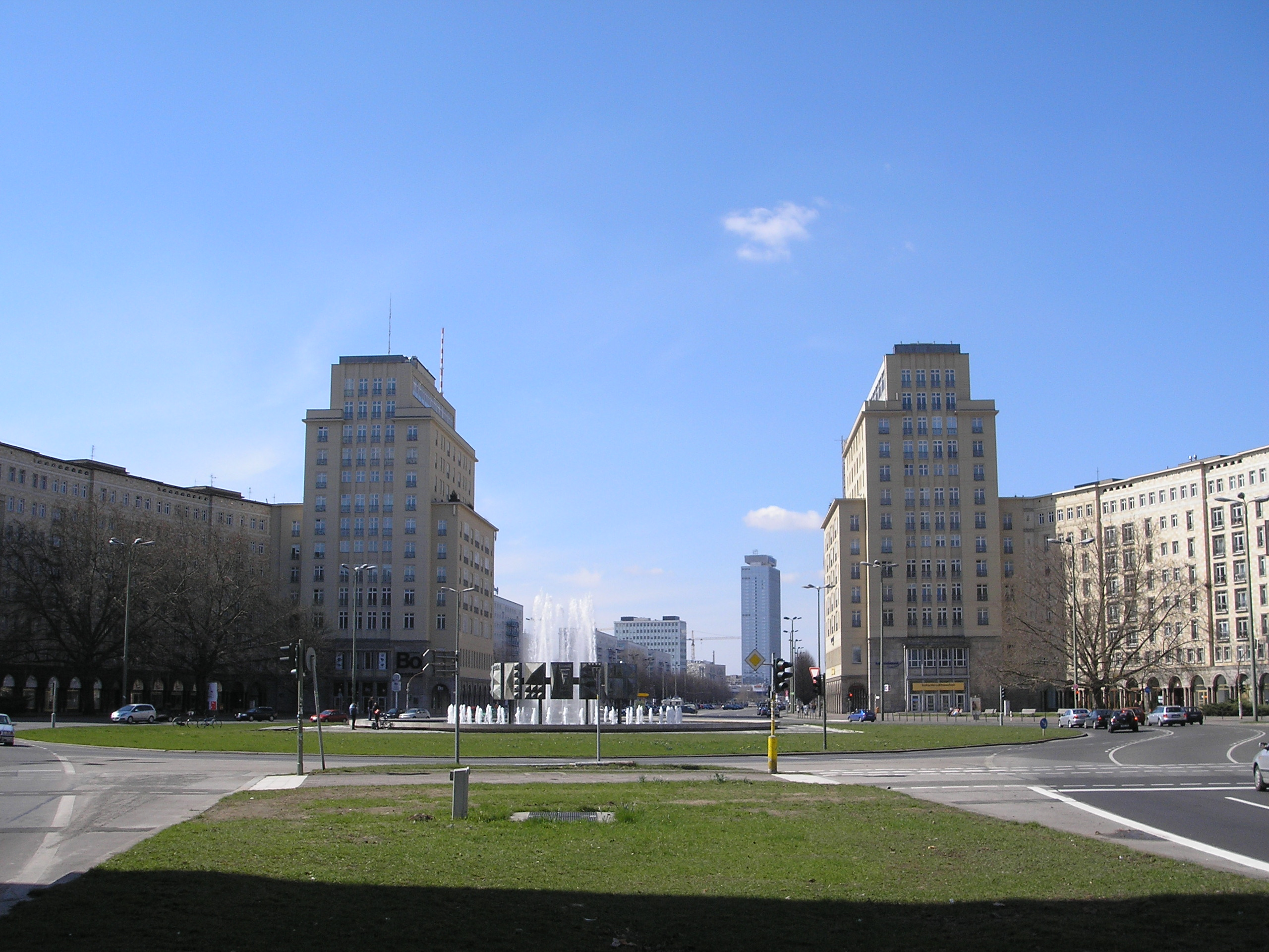 View towards west of Strausberger Platz in Berlin. Architect Prof. Hermann Henselmann, constructed around 1951-1953.